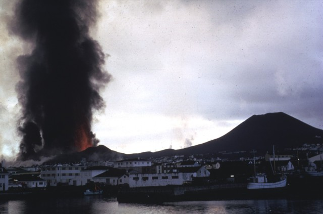 An eruption column rises above the town of Heimaey from a fissure extending from Eldfell cinder cone (right) during the 1973 eruption of Vestmannaeyjar volcano off the southern coast of Iceland.